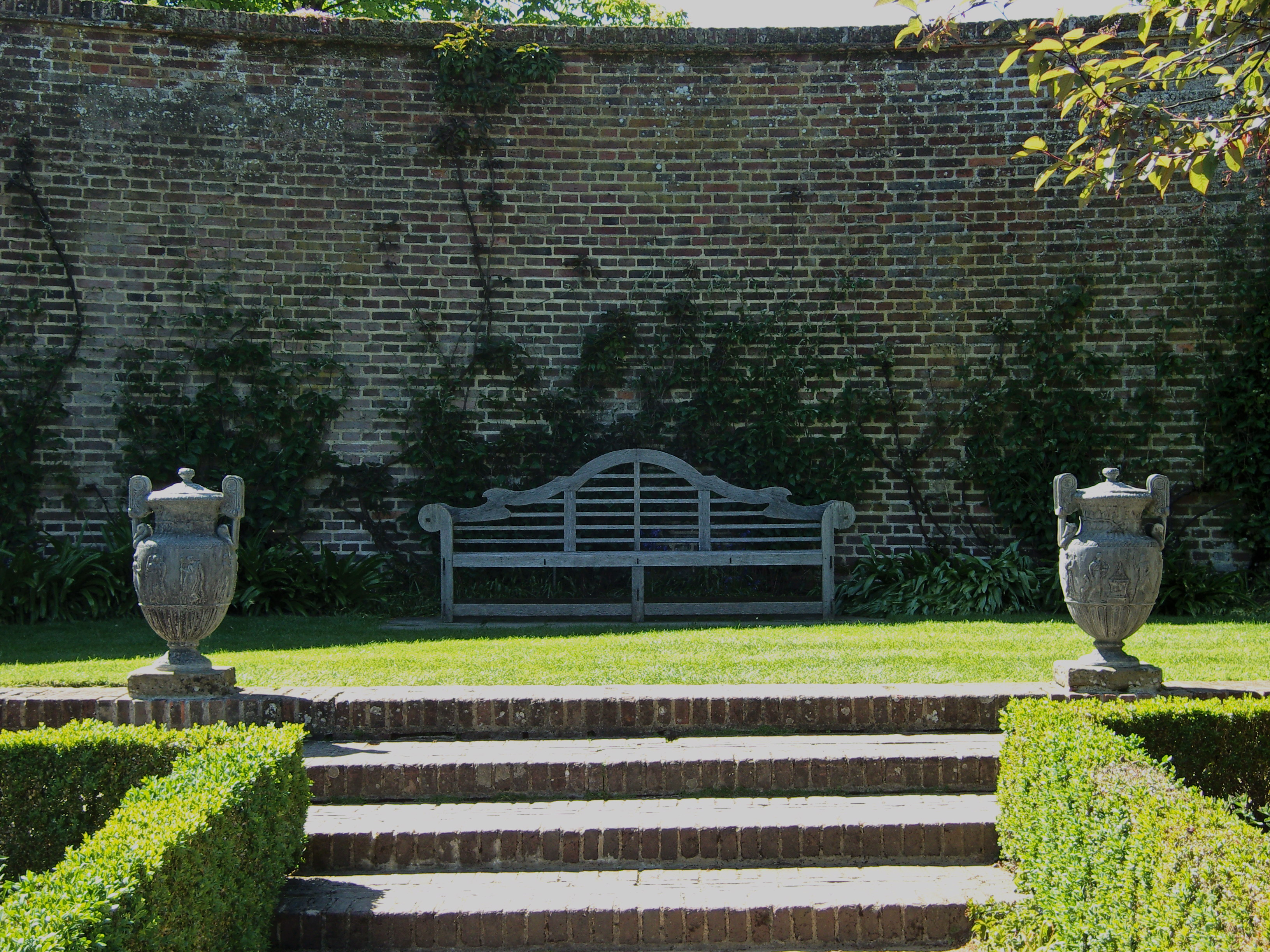 Bench in the garden of Sissinghurst, designed by Edwin Lutyens